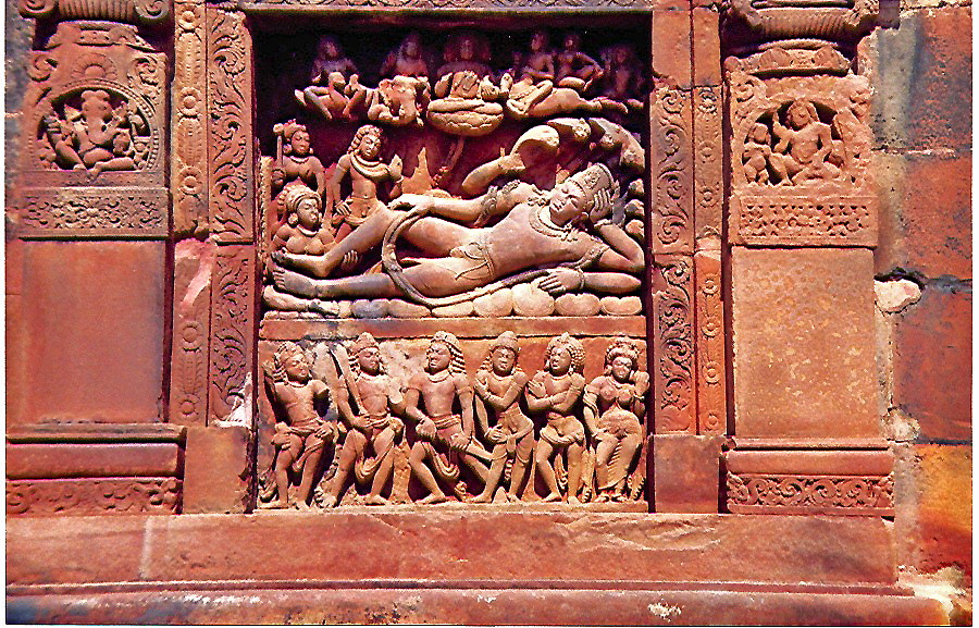 Photo File: C2722